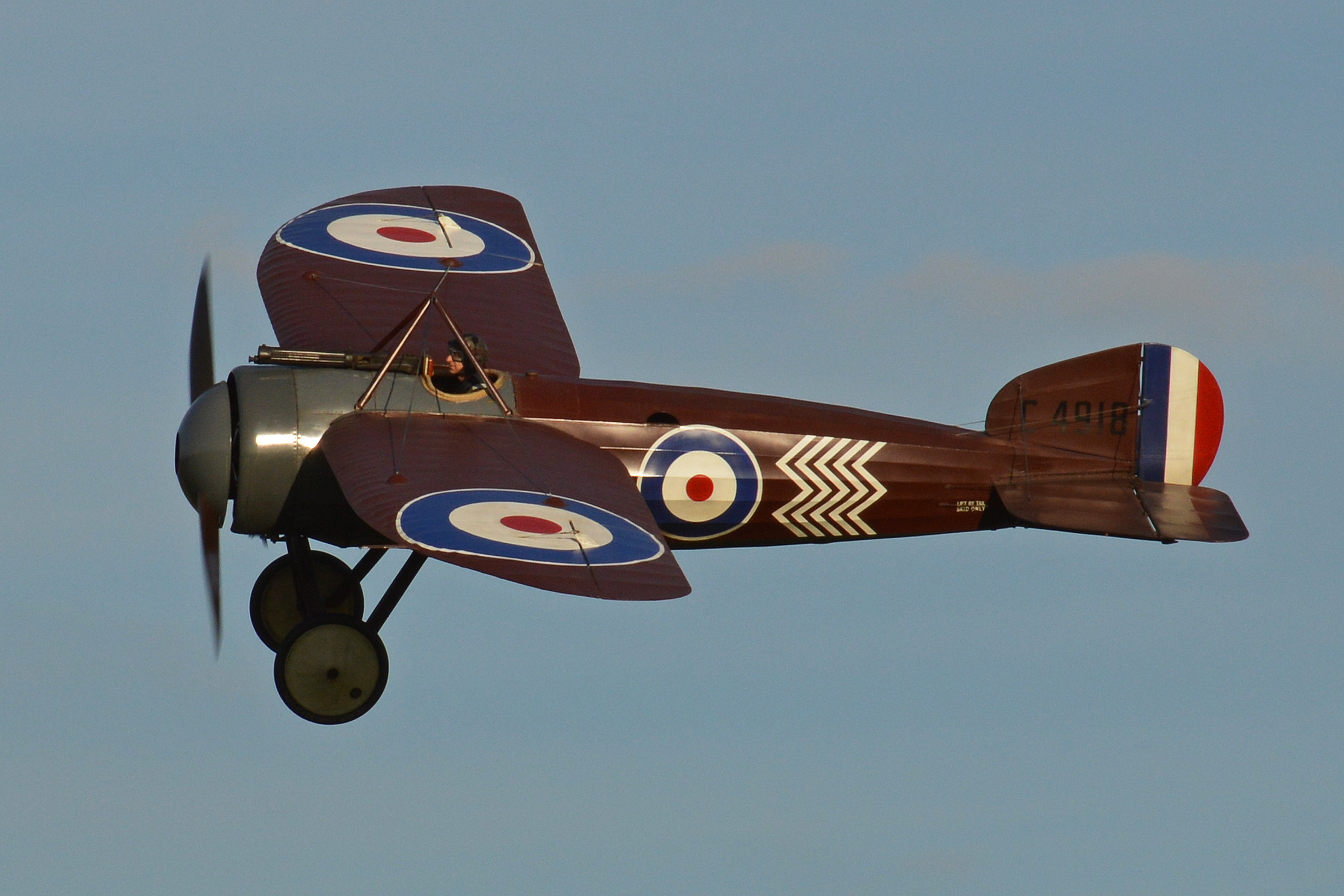 Owned and operated by the Shuttleworth Collection. c/n NAW.2. Seen displaying at Old Warden during the 2013 Autumn Airshow. 06-10-2013 The details below are from the Shuttleworth Collection website:- The project was started by Northern Aeroplane Workshops Jack Smallwood, and carries the colours of aircraft 'C4918' of C Flight No 72 Squadron Royal Flying Corp in 1917. Delivery took place in October 1997. Fitted with an original 110hp Le Rhone engine the aircraft has displayed at Old Warden since her first flight on 25 September 2000.